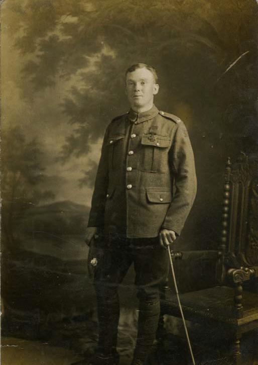 John Cunningham VC of the East Yorkshire Regiment pictured after the award ceremony in Hyde Park when he received the Victoria Cross from the King in July 1917.